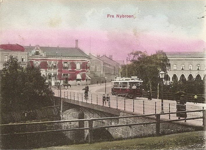 Kristiania Kommunale Sporveie tram at NybruaNorsk bokmål: Kristiania Kommunale Sporveie. Trikk motorvogn kommunal type S (Schuckert) på Nybrua, mulig vogna har nummer 200 (eller 206 eller 208..., vi har ikke noe annet belegg for at det fantes en vogn nr. 200 enn dette bildet). Hest og kjerre ved Schous Bryggeri. Håndkolorert bilde.